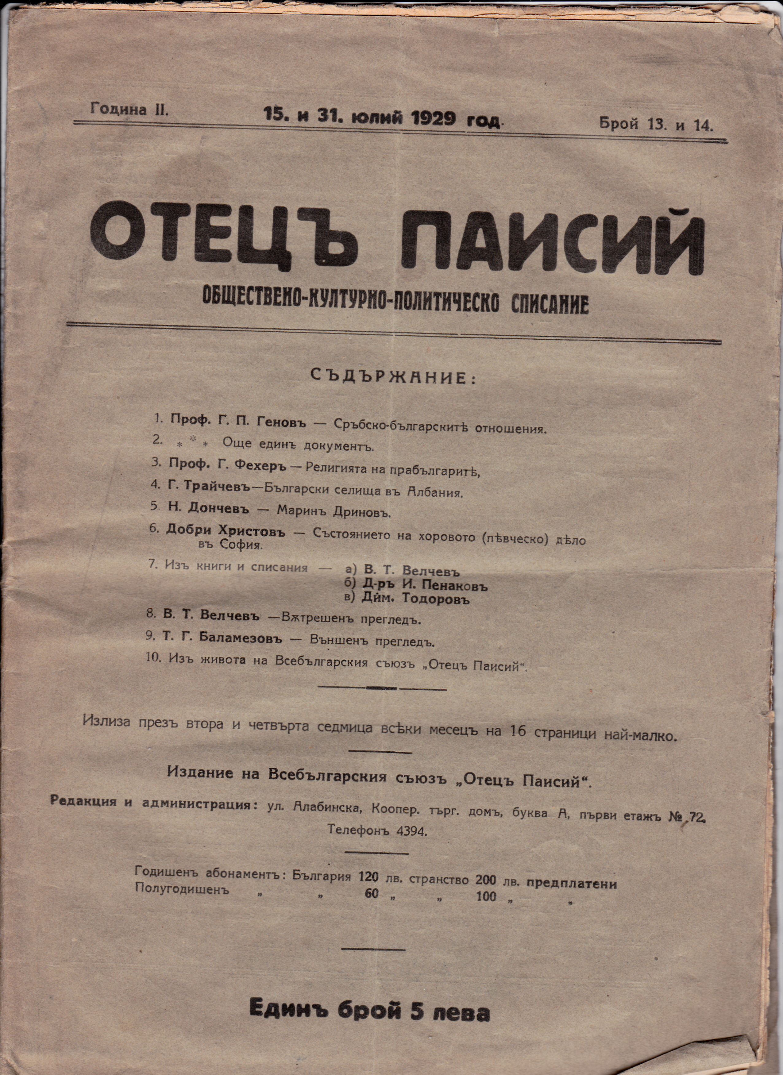 Front page of Otec Paisii magazine